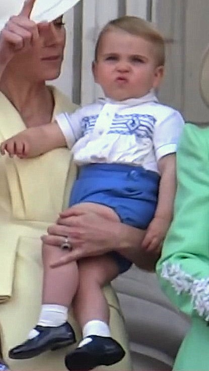 The Cambridge family attended the annual Queen’s Birthday Parade known as Trooping the Colour. The event took place on Horse Guards Parade in London.